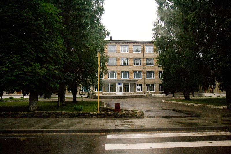 School building in Illa village, Minsk province, Belarus.